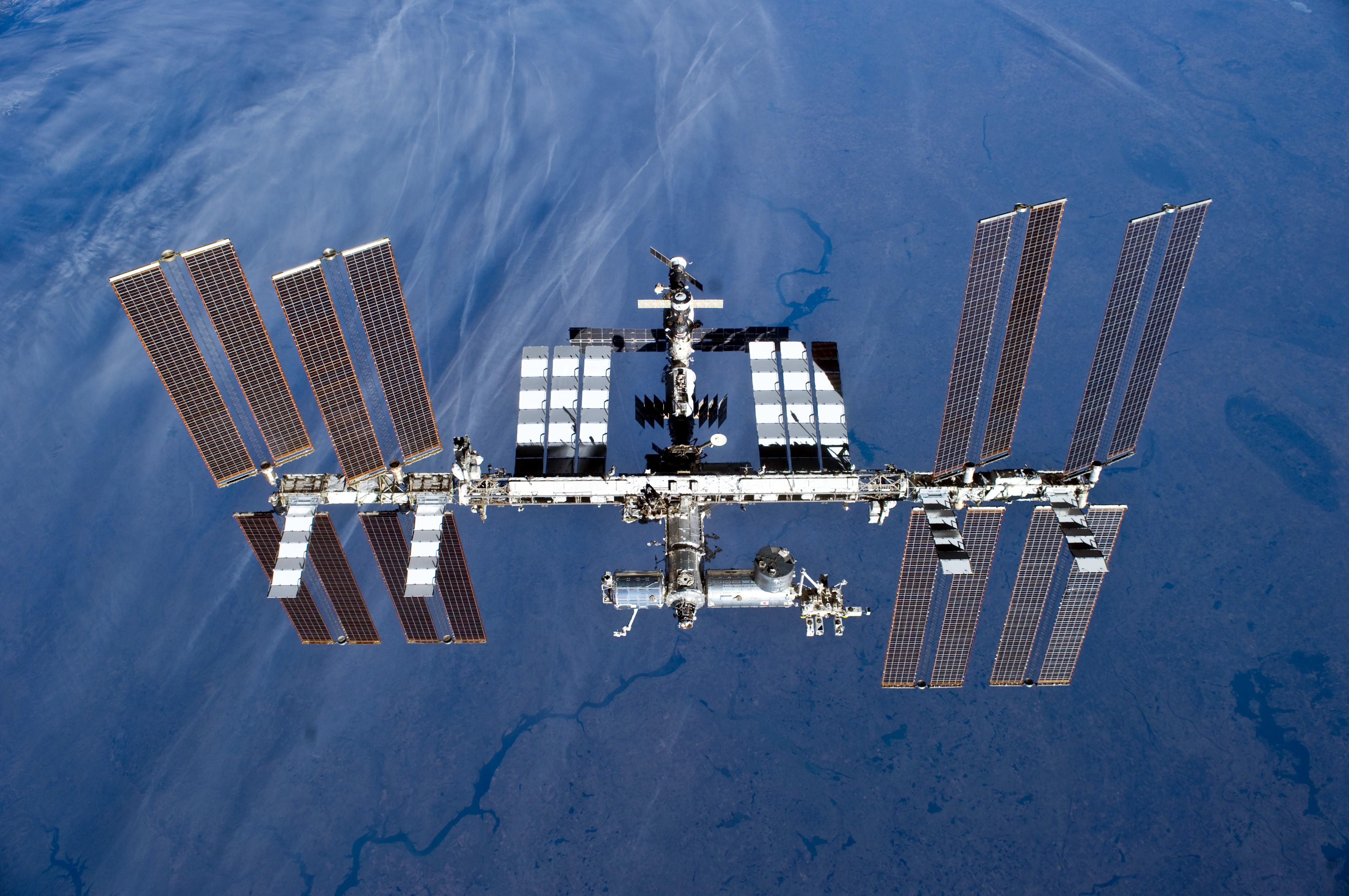 The International Space Station is featured in this image photographed by an STS-131 crew member on board the Space Shuttle Discovery after the station and shuttle began their post-undocking relative separation. Undocking of the two spacecraft occurred at 07:52 CDT on 17 April 2010.